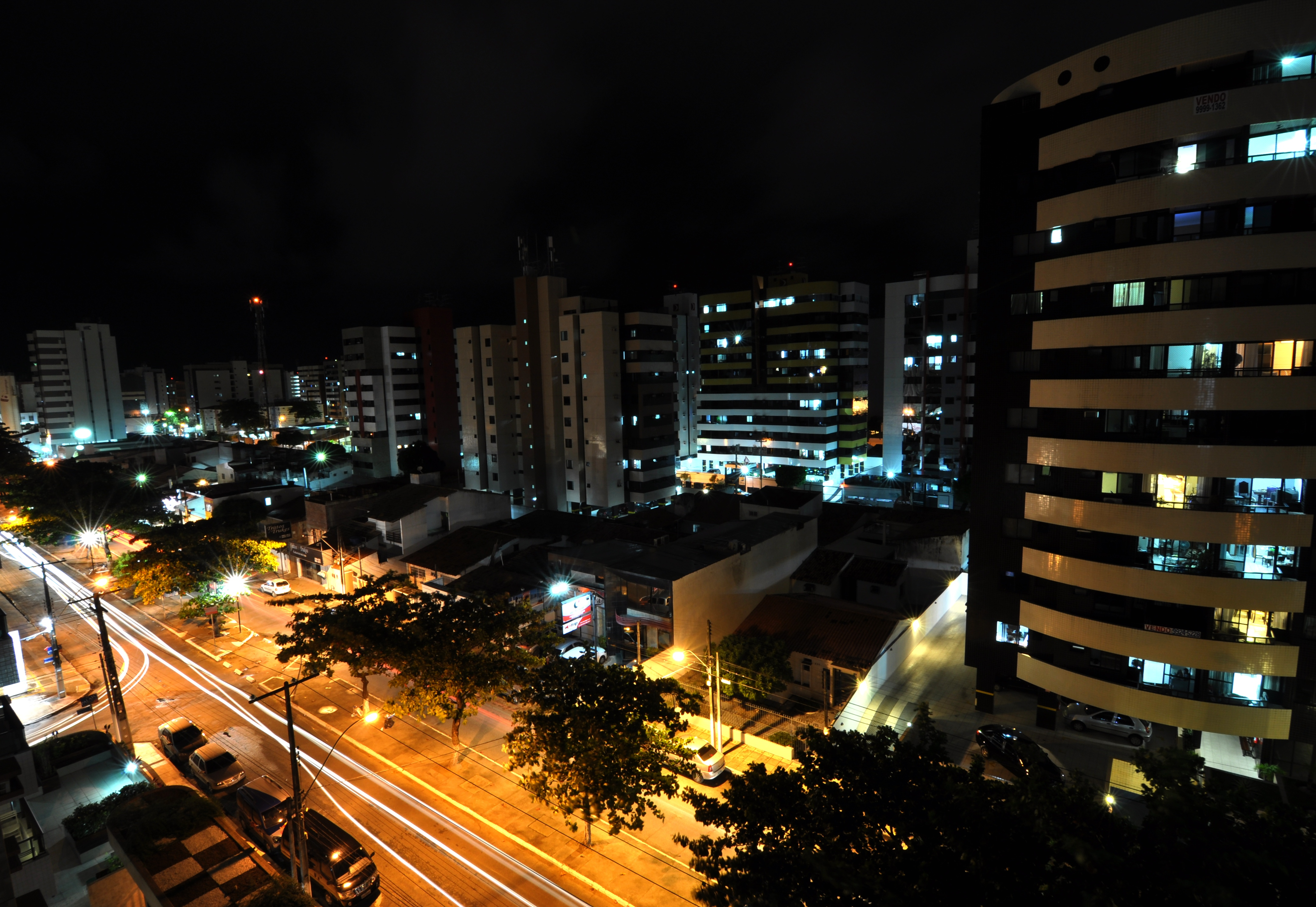 Avenue Professor Sandoval Arroxelas (Maceió)